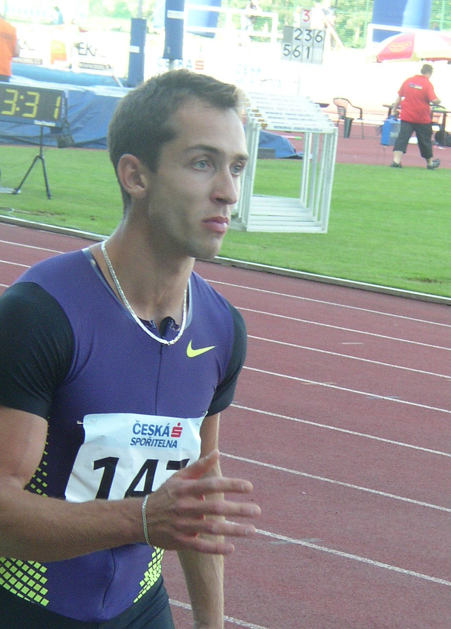 Athlete Roman Novotný of the Czech Republic preparing for his attempt in long jump at 17th edition of the Josef Odložil Memorial (EAA Premium Meeting, Na Julisce Stadium, Prague, Czech Republic, 14 June 2010). Novotný ranked fourth in the competition with 7.84 m mark.